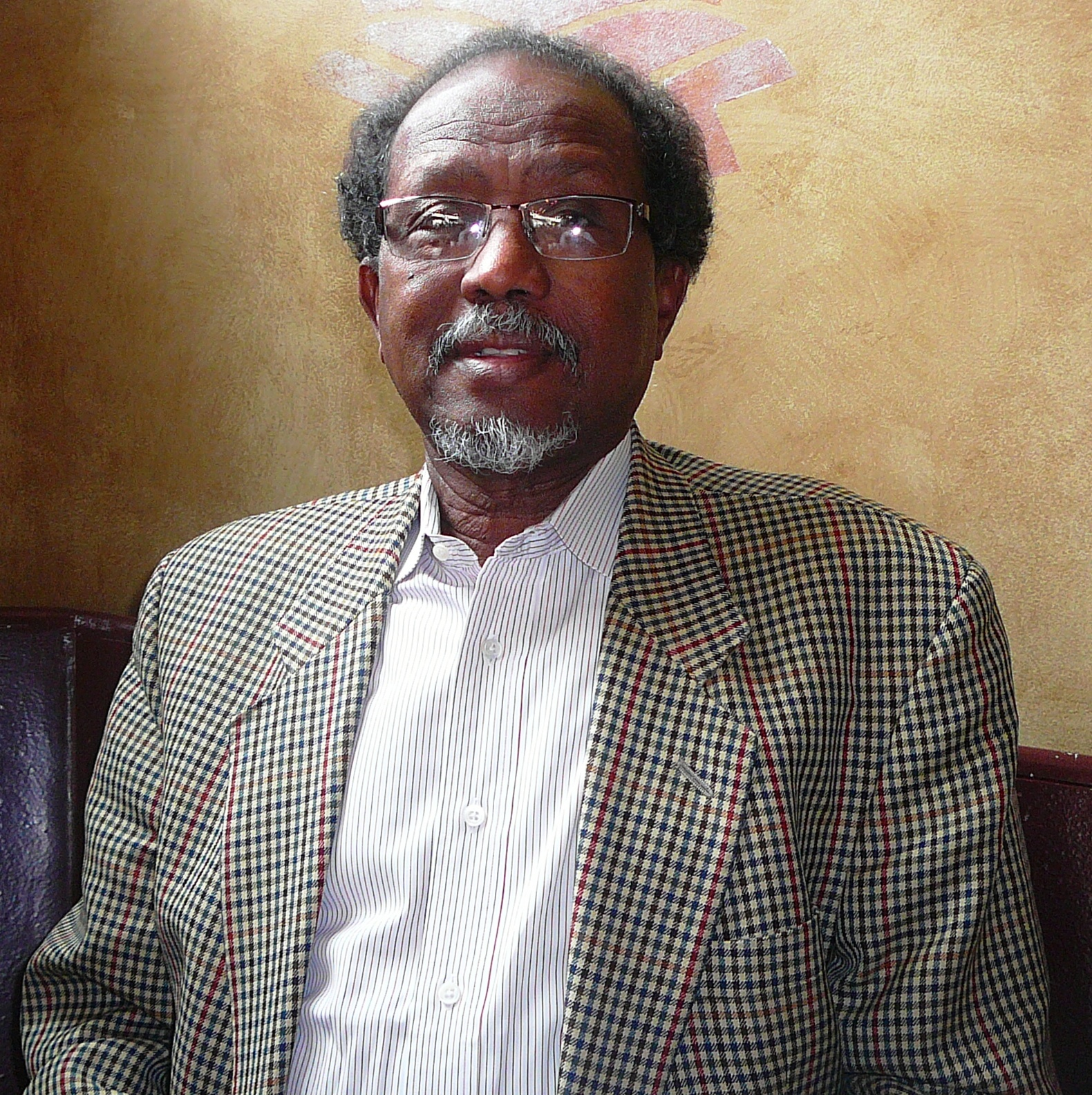 Photo of Dr. Ali Khalif Galaydh